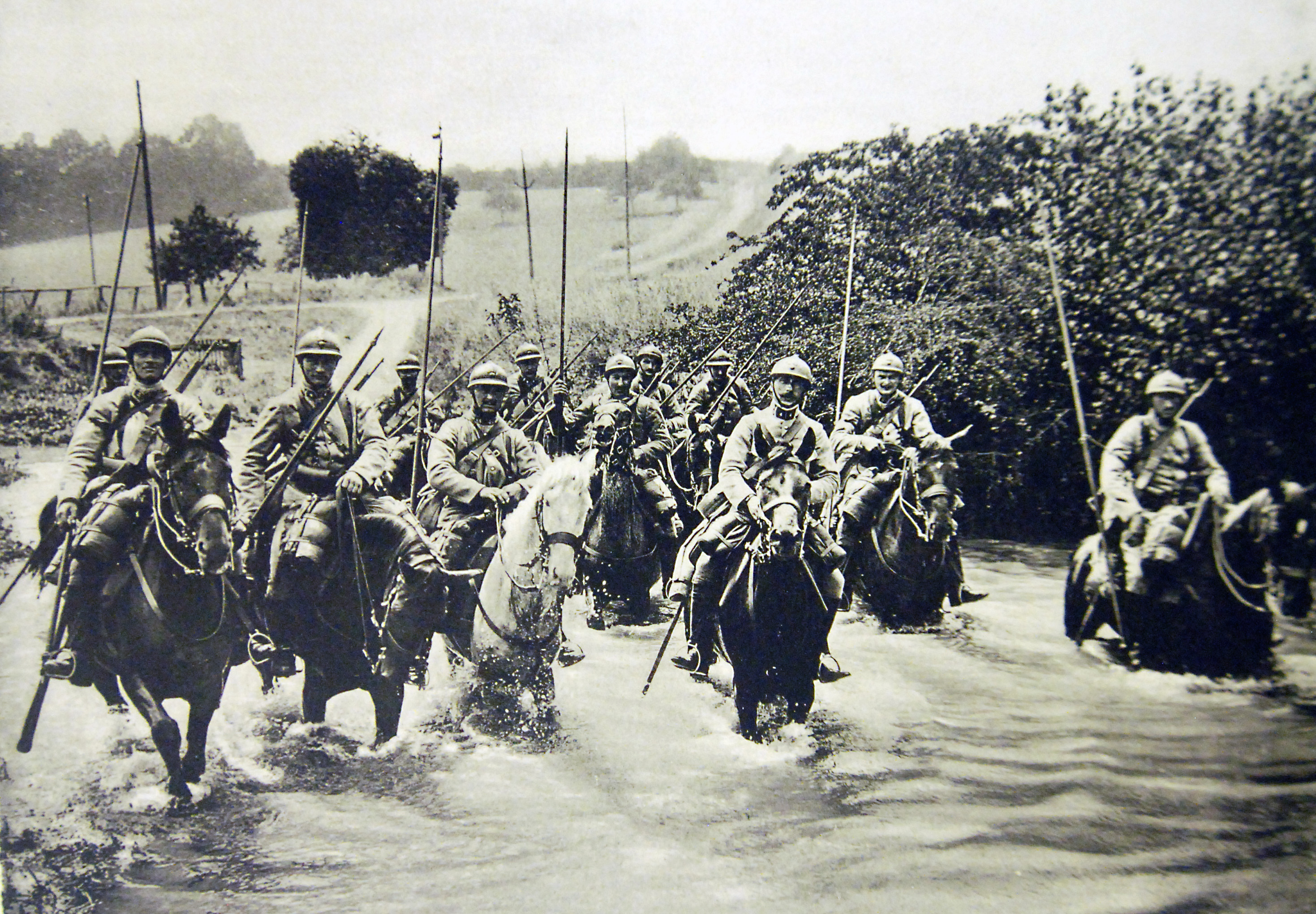 Lot-10282-8: WWI French Activities. Original caption, “Dragoons Reconnoitoring, Oise, 1916.” Halftone image photographed from the book, Guerre, 1914-1919. Courtesy of the Library of Congress. (2016/09/30).